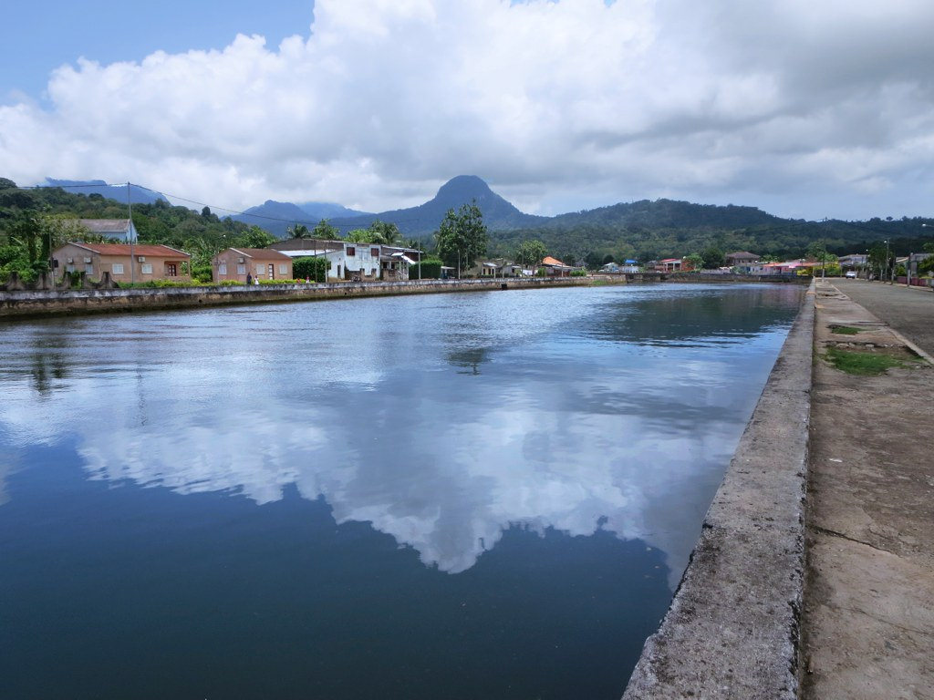 The Rio Papagaio in Santo Antonio drains much of northern Principe Island, São Tomé and Príncipe.